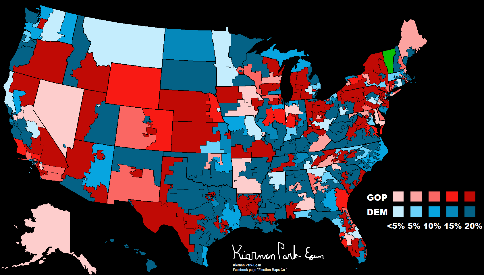 The margin of victory for each U.S. House district in 1992.